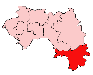 Map of Guinea showing Nzérékoré Region. Created using the GIMP